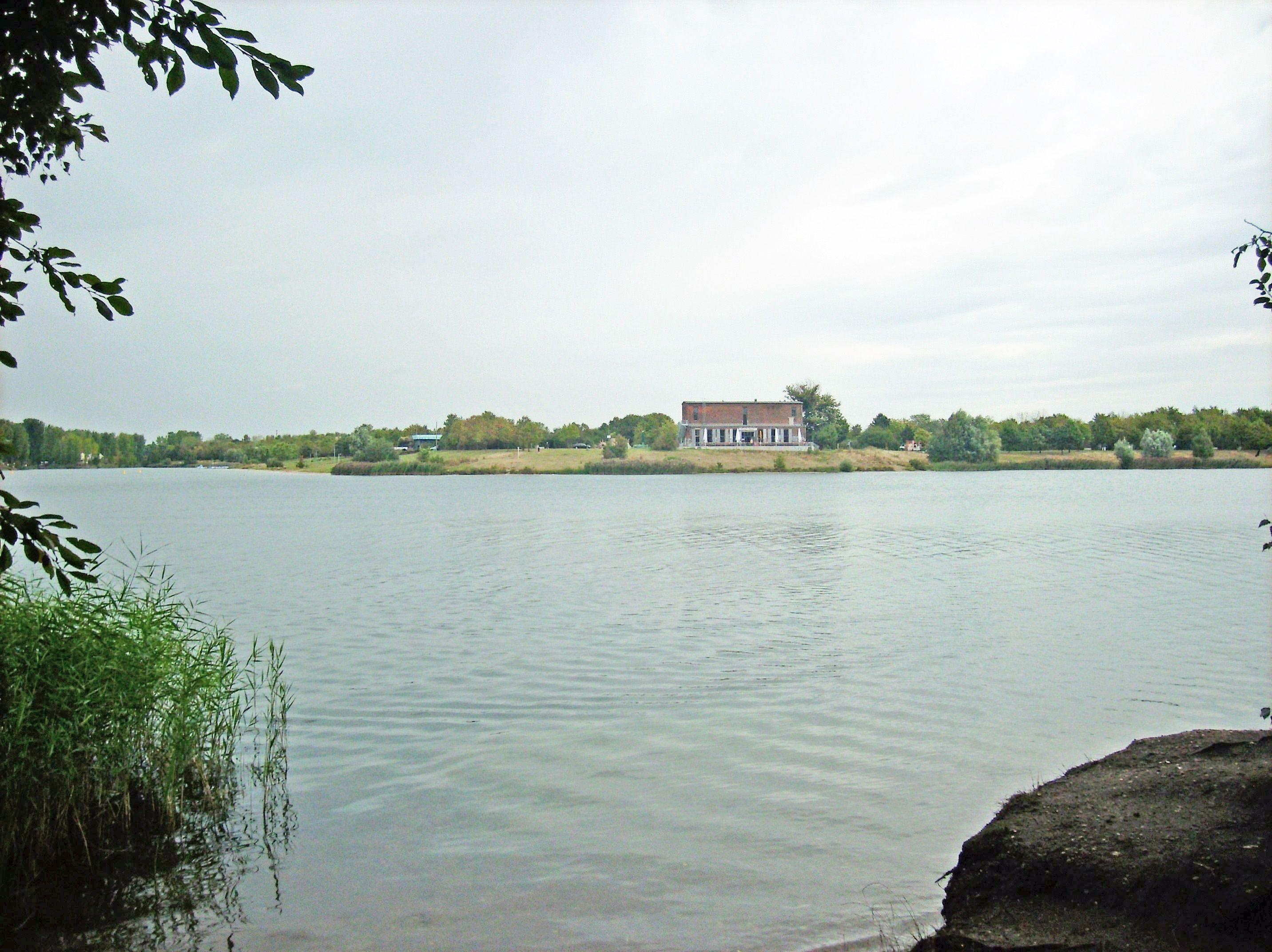 Kulkwitz Lake between Leipzig and Markranstädt (Saxony) with the red house at the Lausen side in the background